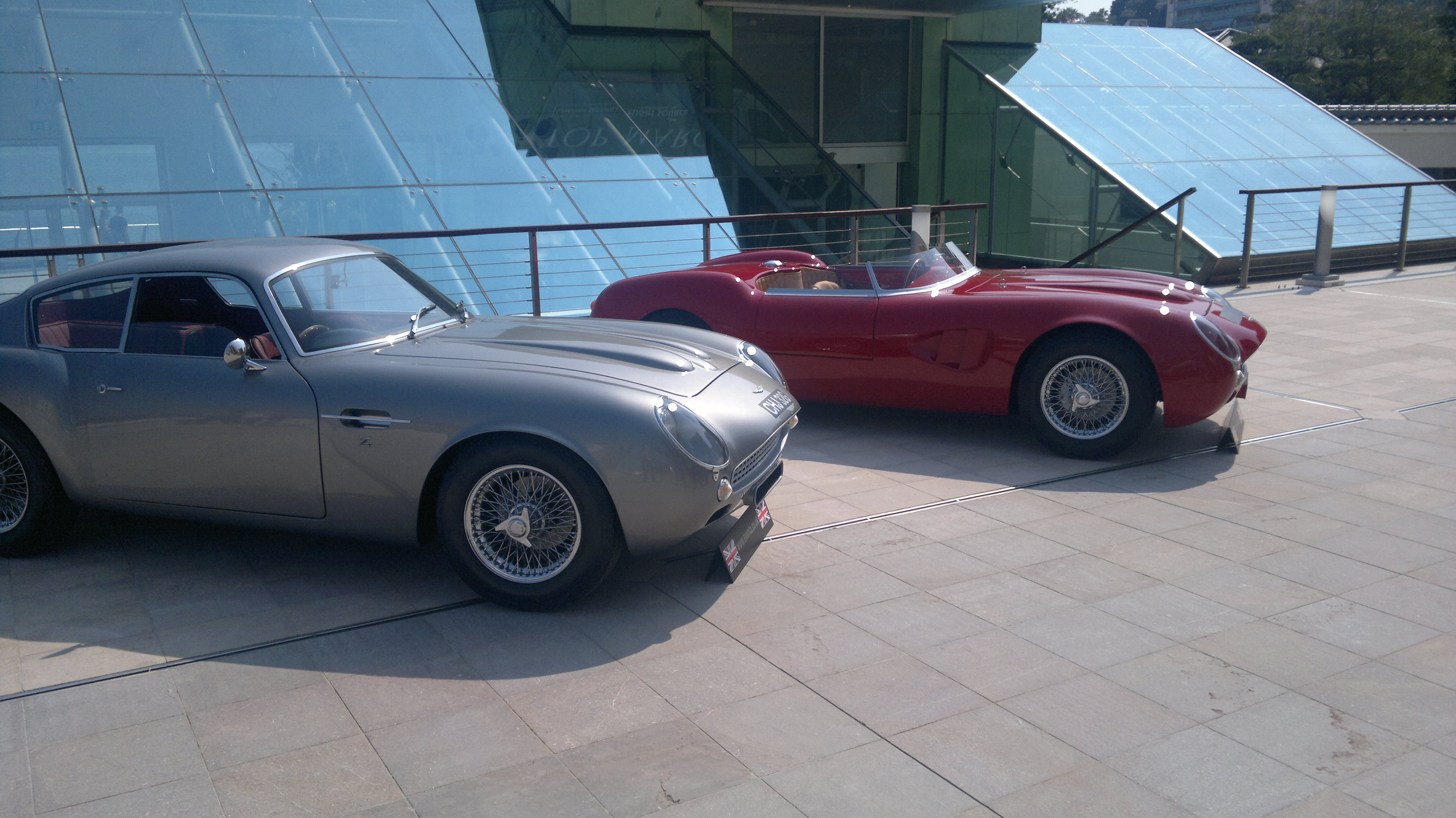 Evanta DB4 GT Zagato (left) and Evanta Barchetta (right)